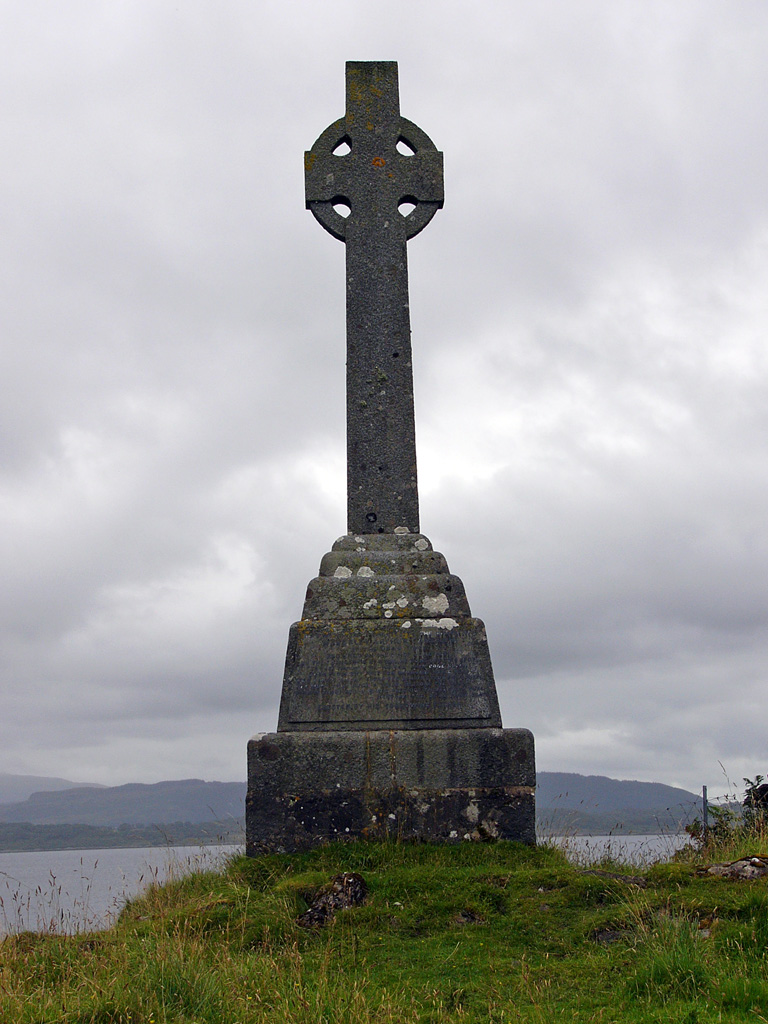 A celtic cross on the shore of Lismore, Scotland